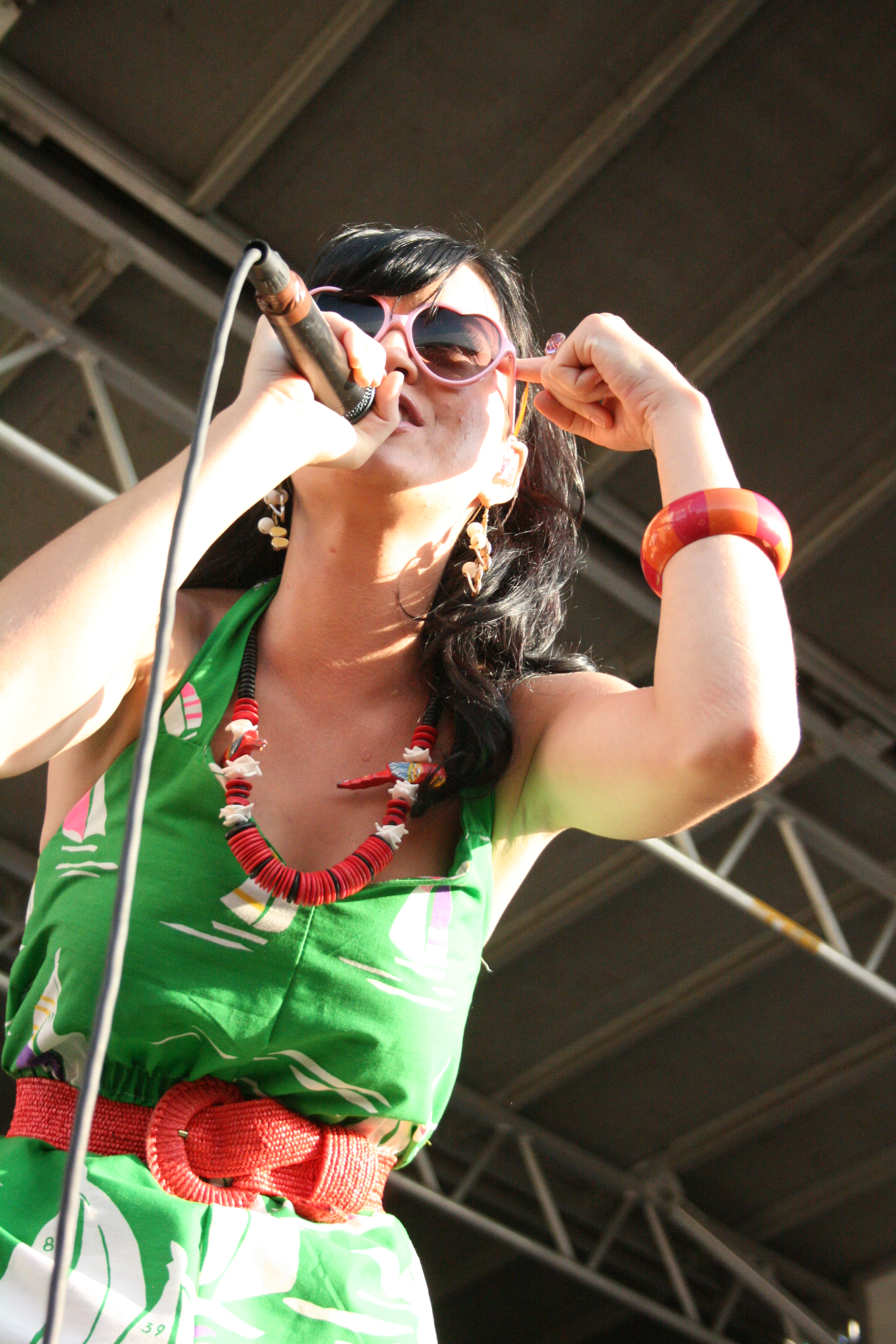 Katy Perry performing live, August 2008.